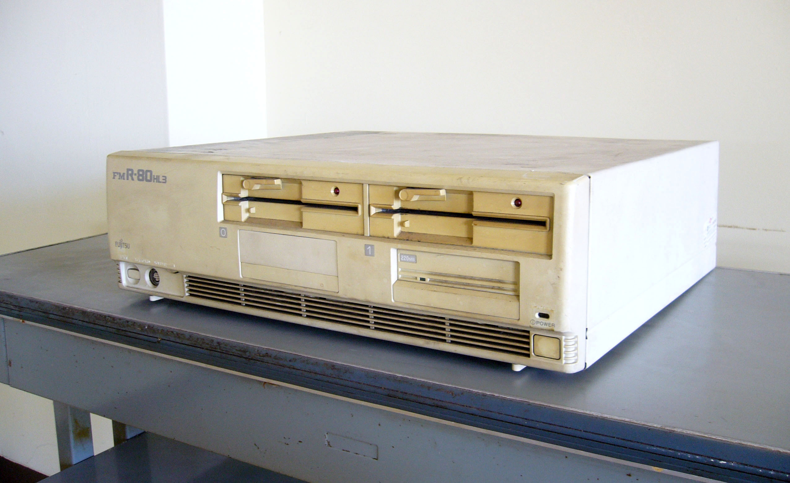 Front of FMR-80HL3 (Fujitsu desktop computer around 1990, W:47cm x D:40cm x H:14cm)